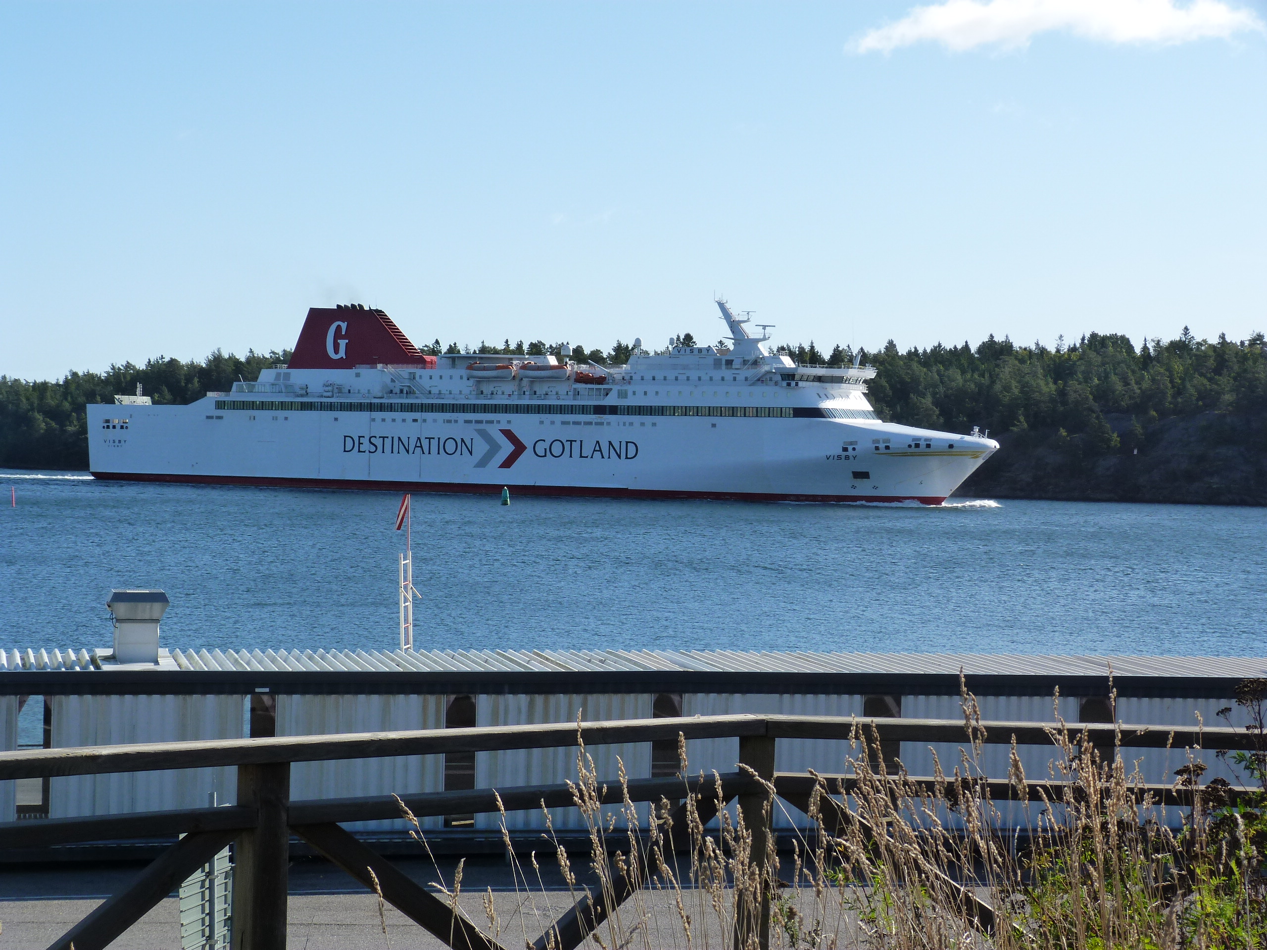 M/S Visby in Nynäshamn